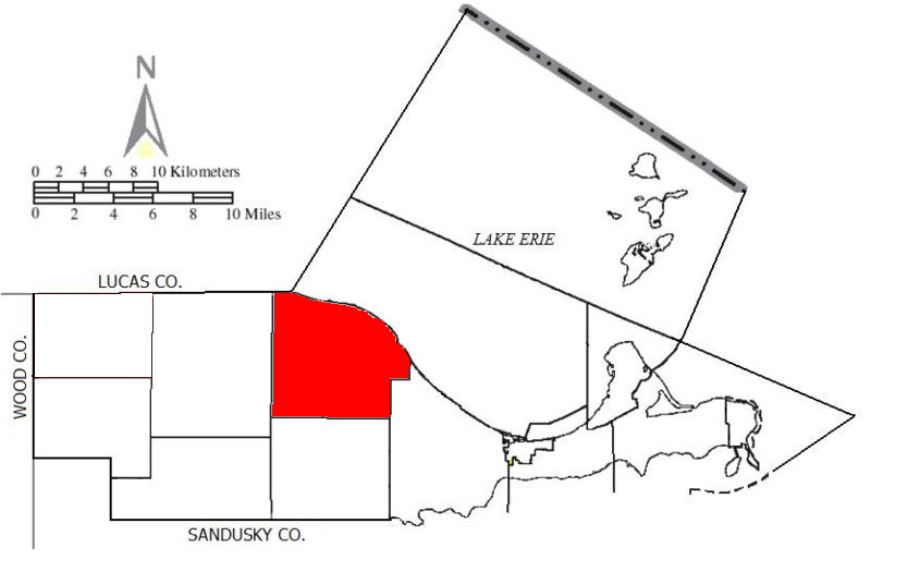 Made by US Census and modified by me